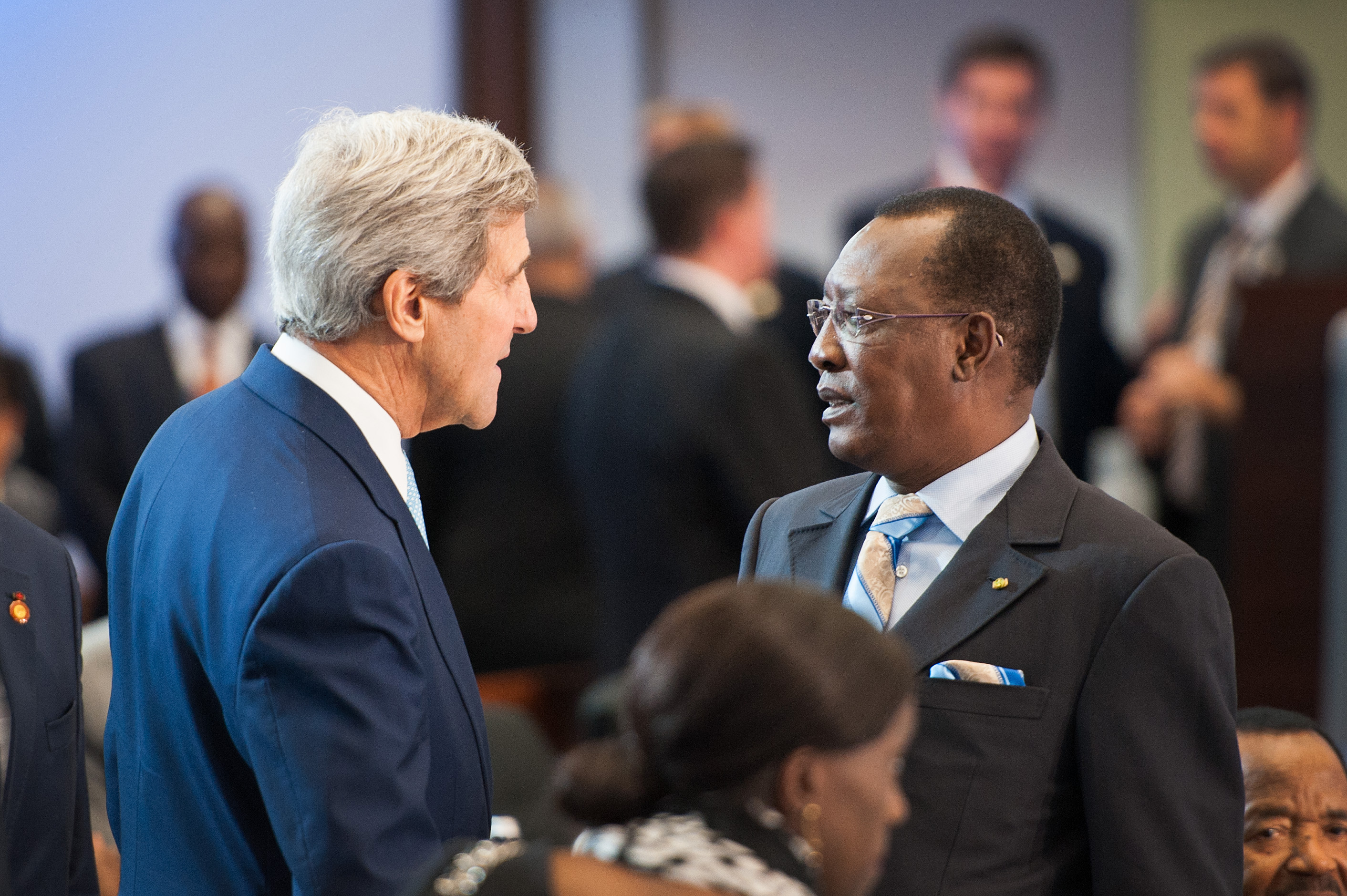 U.S. Secretary of State John Kerry greets Chad's President Idriss Déby before the start of the U.S.-Africa Leaders Summit Session One on “Investing in Africa’s Future,” at the U.S. Department of State for the final day of the U.S.-Africa Summit in Washington, D.C., on August 6, 2014.